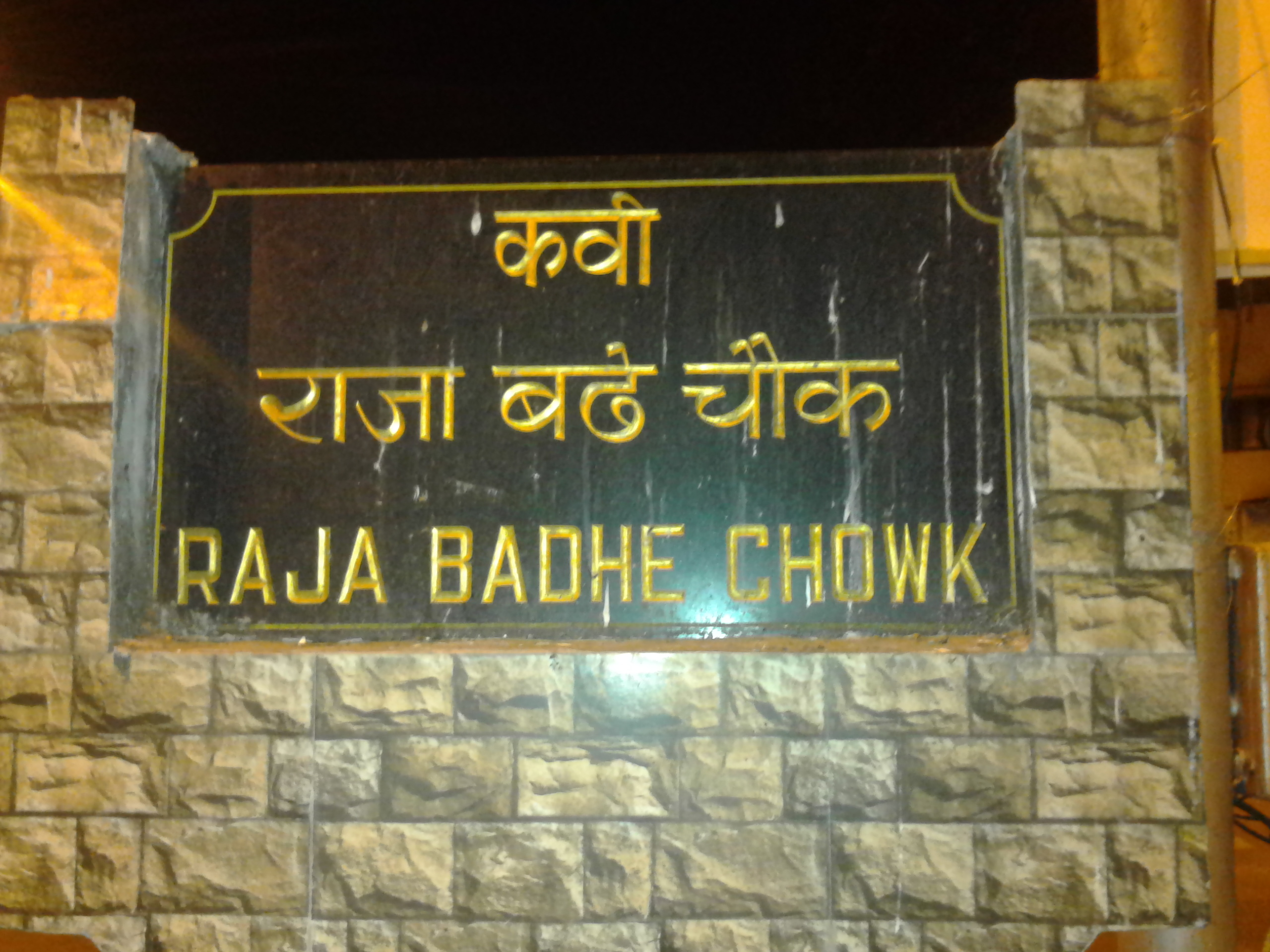 Poet Raja Badhe Chowk is situated at Dadar near Shivaji Park, Mumbai.